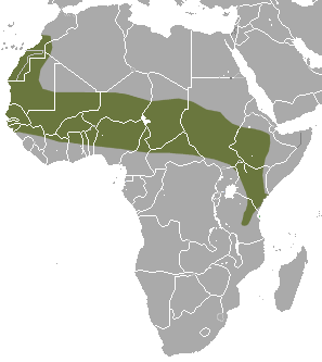 Savanna Path Shrew (Crocidura viaria) range